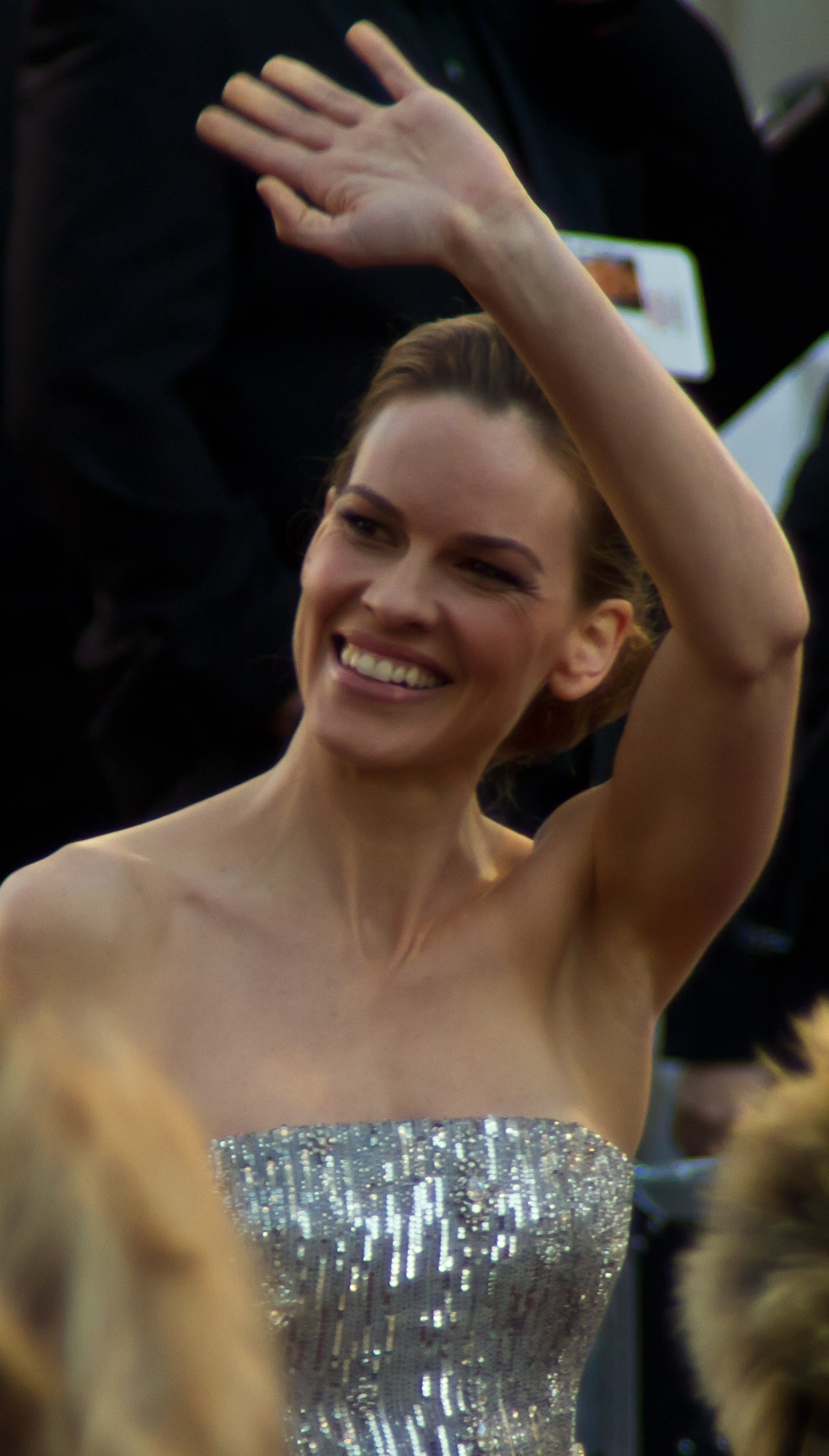 Actress Hilary Swank at the 83rd Academy Awards.